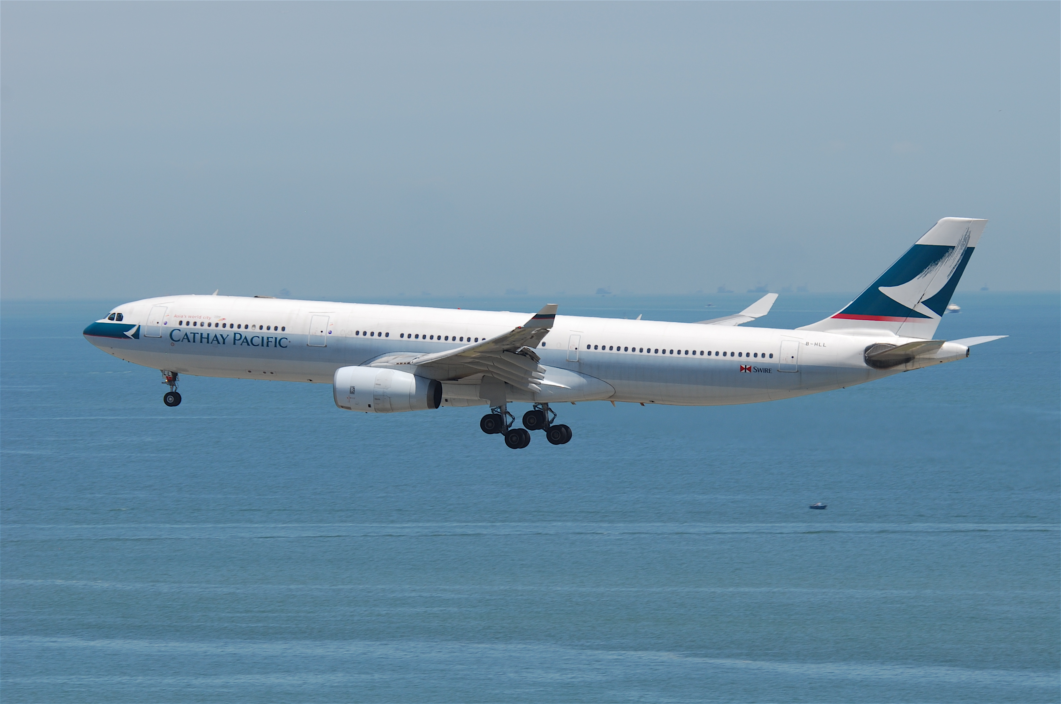 Cathay Pacific Airbus A330-300; B-HLL@HKG;04.08.2011/615fp